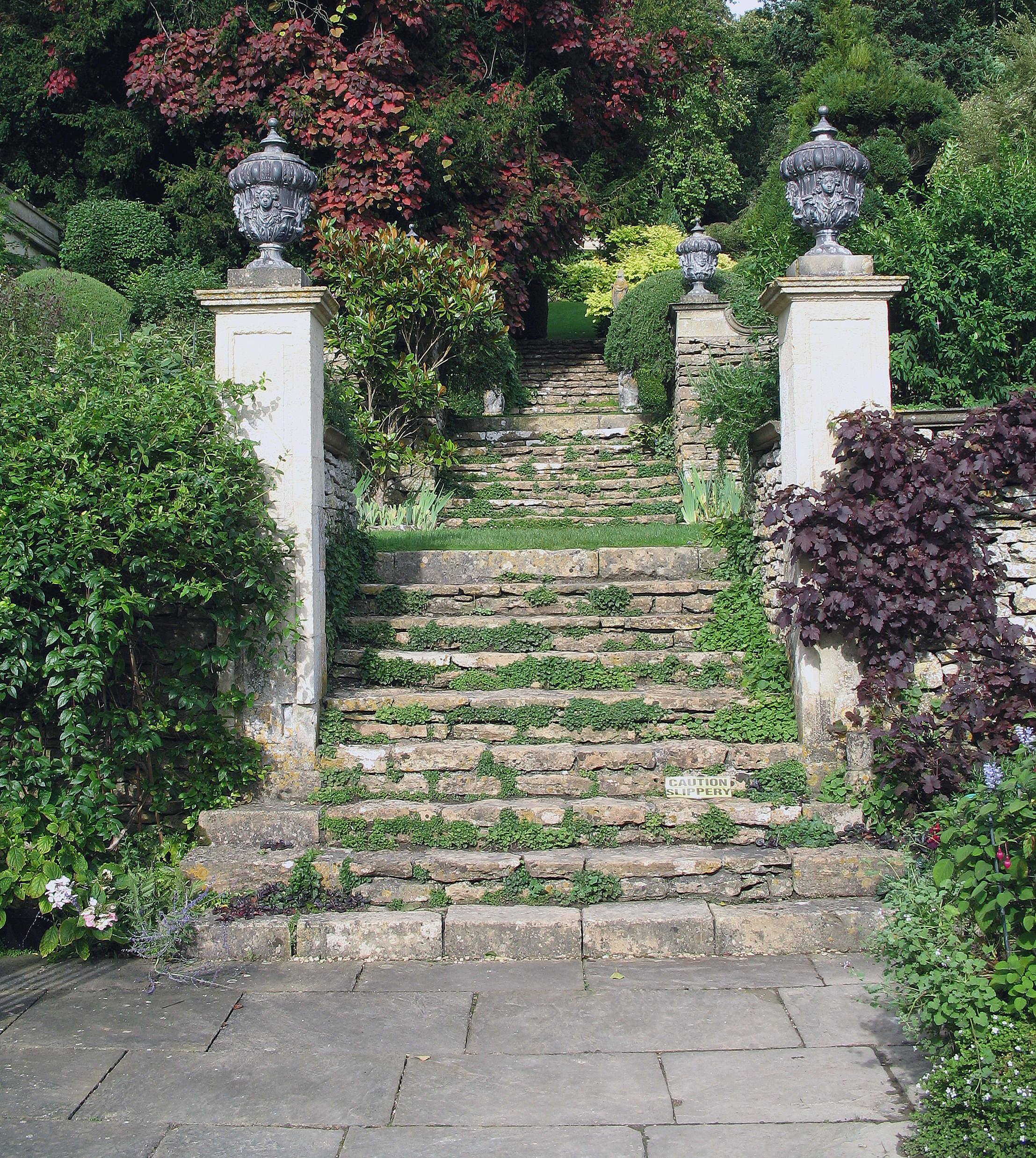 Iford Manor - stairs to the Great Terrace